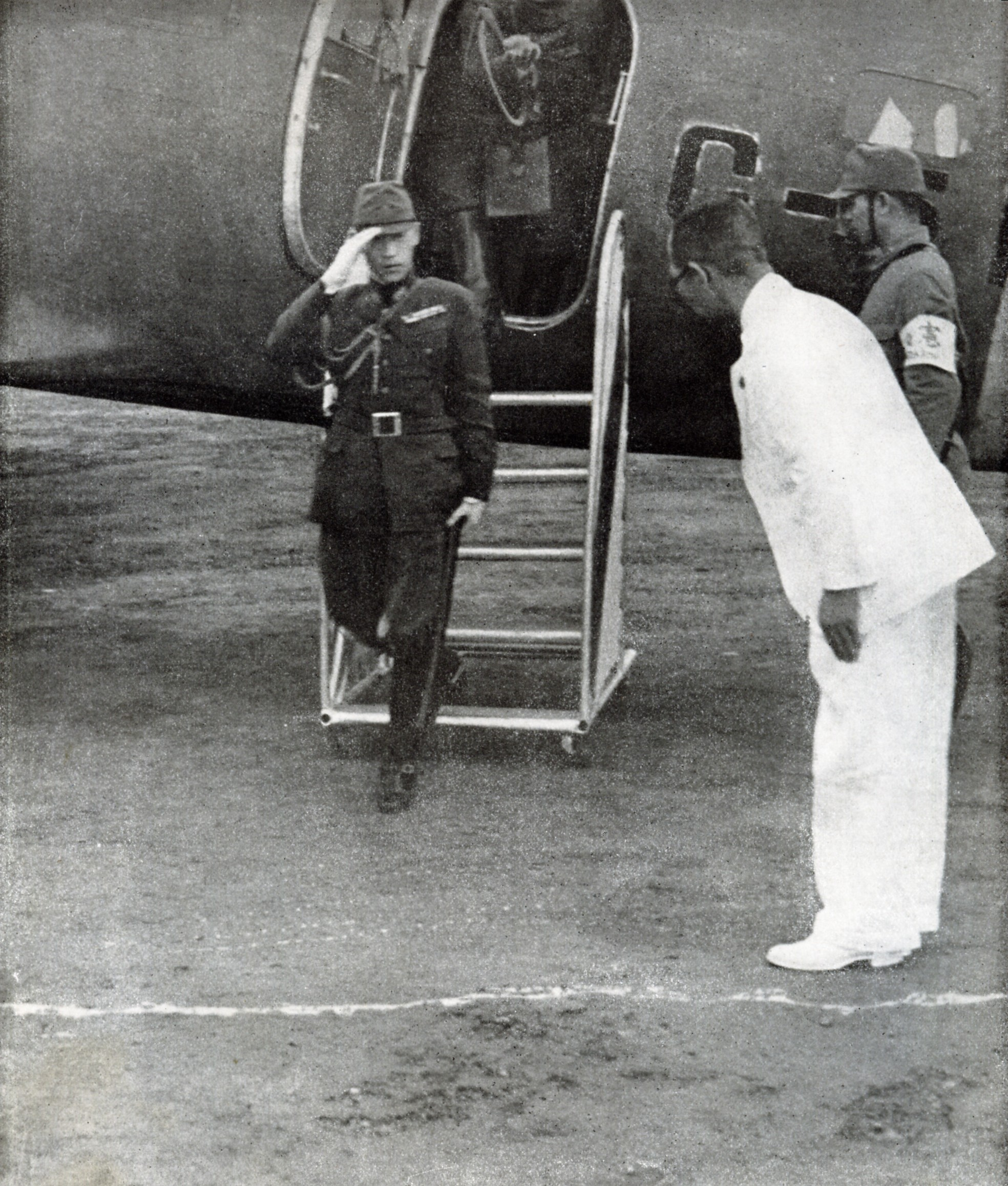 Prince Yi Wu (in book, described as "李鍝公殿下") of Korea under Japanese military service.